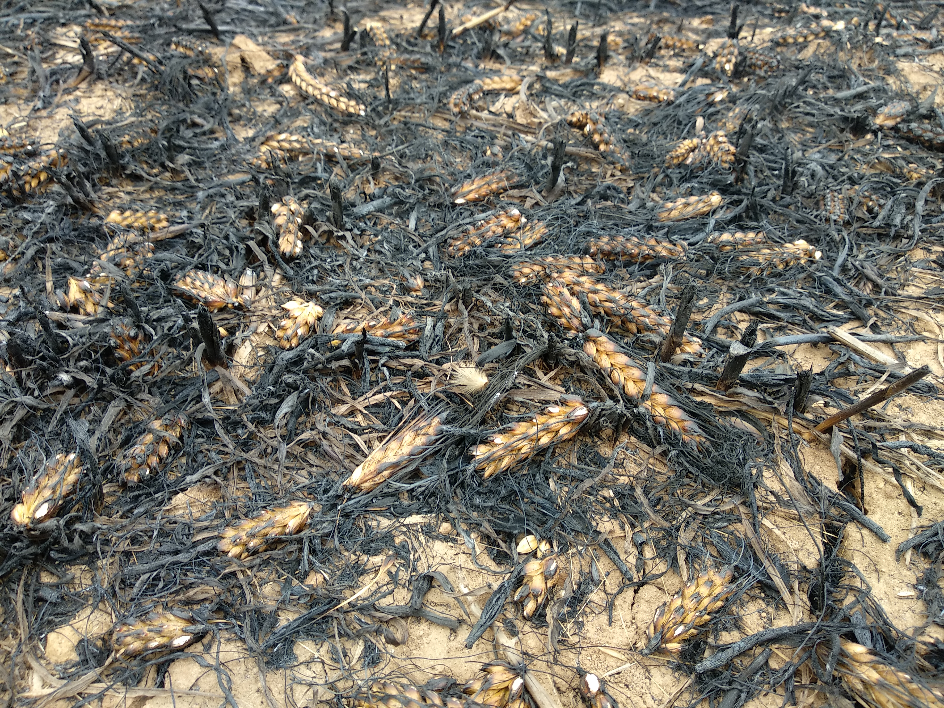 Fields of Eshkol Regional Council that was burnt by fire caused by Incendiary kite, that was sent from Gaza strip